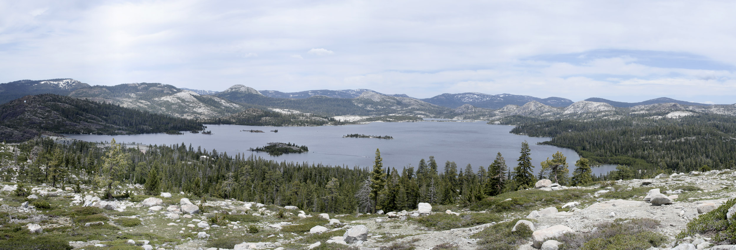 Loon Lake, seen from from Chipmunk Bluff — a reservoir in the Eldorado National Forest and El Dorado County, in the Sierra Nevada (Lake Tahoe region), California.